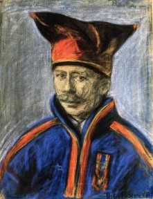 Mathis Johan Roska (1876-1956) of Nesseby Finnmark painted by Astri Aasen (1875-1935) during the first Sami congress in Trondheim 1917